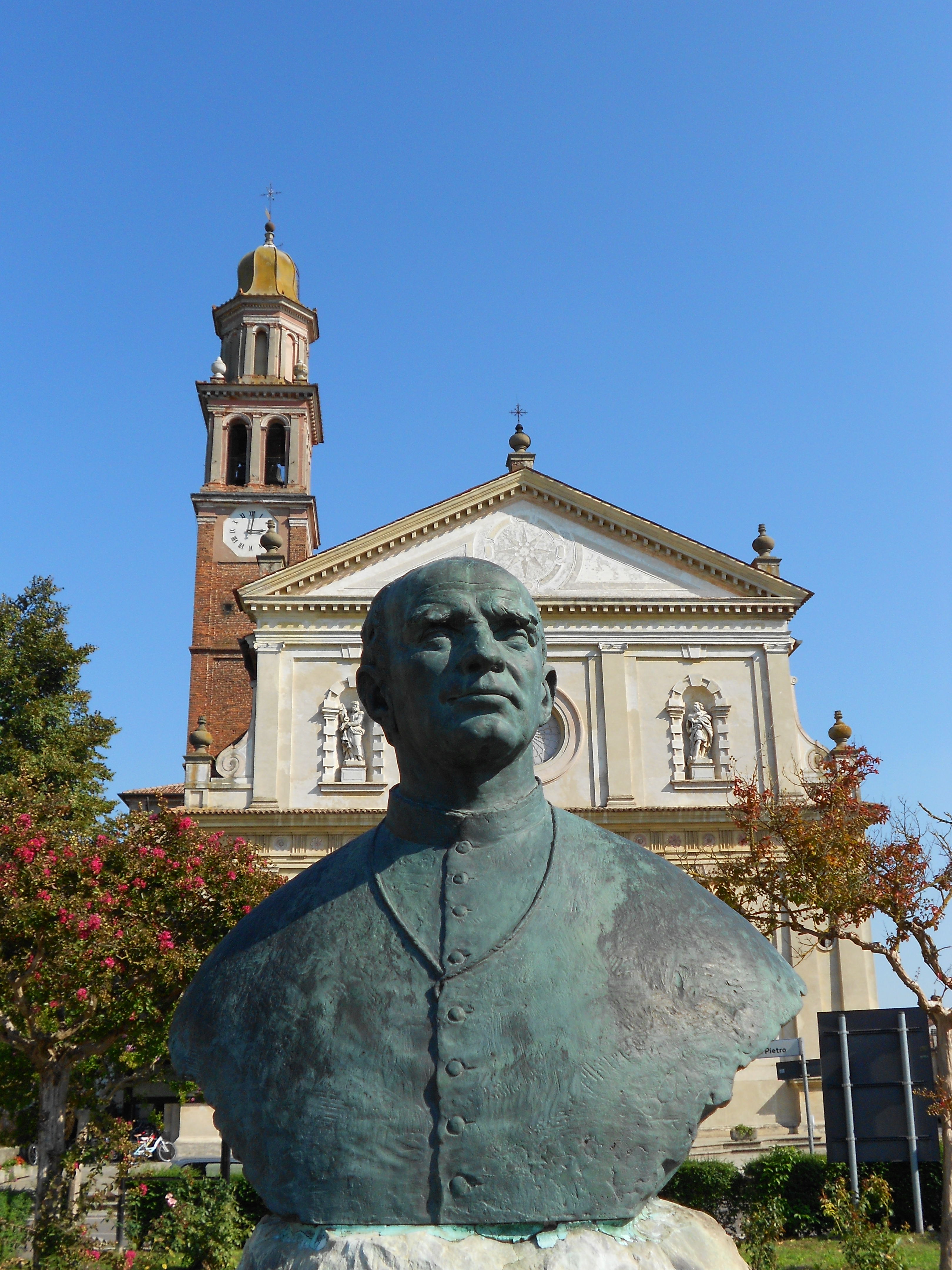 Luigi Guanella, Fratta Polesine, Rovigo, Italy